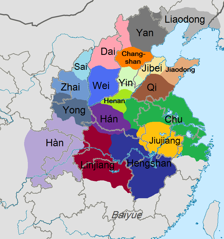 Approximate location of the Eighteen Kingdoms after the fall of the Qin Dynasty (206-202 BCE). Superimposed on current borders.